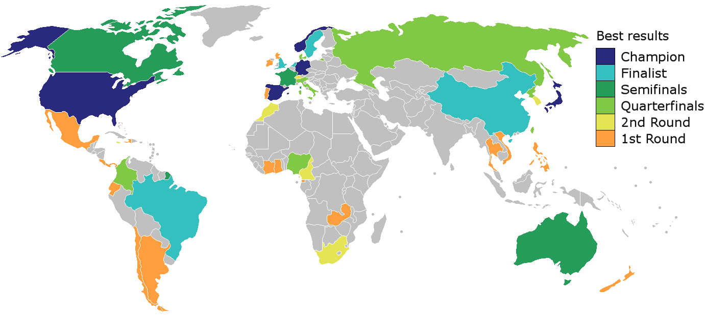 Map of Womens World Cup countries best results.